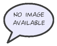 Placeholder image for comics